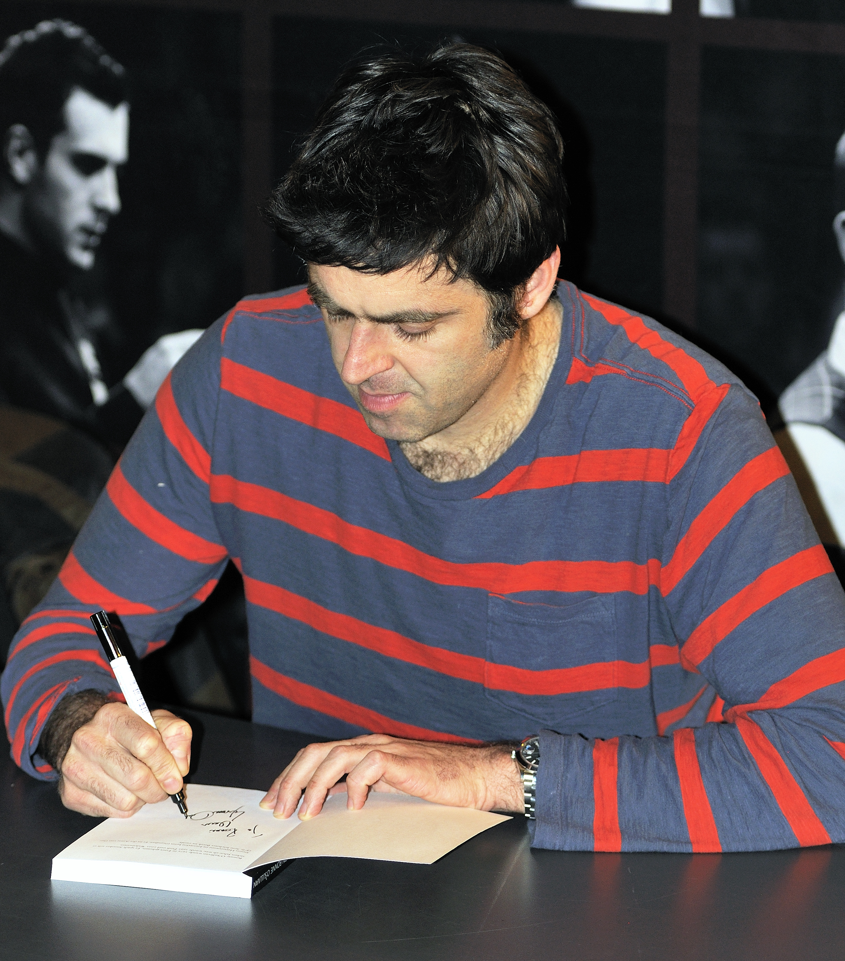 Picture taken in Berlin during the Snooker German Masters in 2014. Ronnie O’Sullivan.